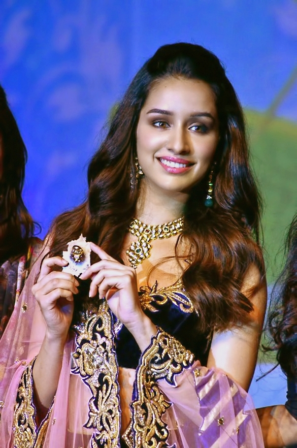 Shraddha Kapoor at India Bullion & Jewellers Association Ltd. (IBJA) awards and fashion showcase.